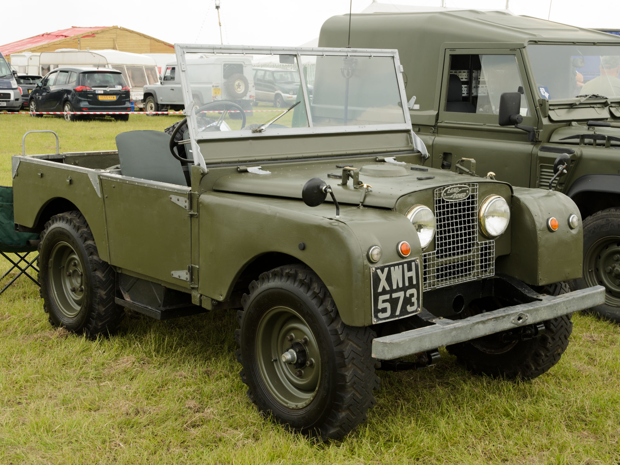 Ashley Hall Traction Engine Rally 28/05/2016